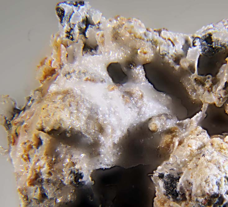 Simonkolleite is a very rare zinc chloride hydroxide known from a few localities worldwide. It occurs in this specimen as druses of white microcrystals. From: Richelsdorf, Hesse, Germany.